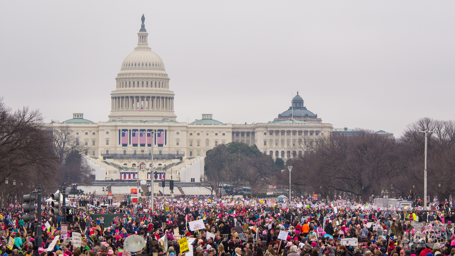 Trump-WomensMarch_2017-1060322